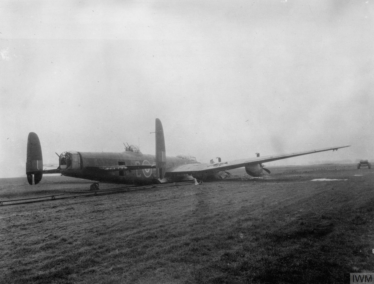 Avro Lancaster B Mark I, ME590 'SR-C', of No. 101 Squadron RAF, lies on the FIDO (Fog Investigation and Dispersal Operation) pipework at Ludford Magna, Lincolnshire, after a successful crash-landing on returning from a raid to Augsburg on the night of 25/26 February 1944. See also File:Air Ministry Second World War Official Collection CE133.jpg.